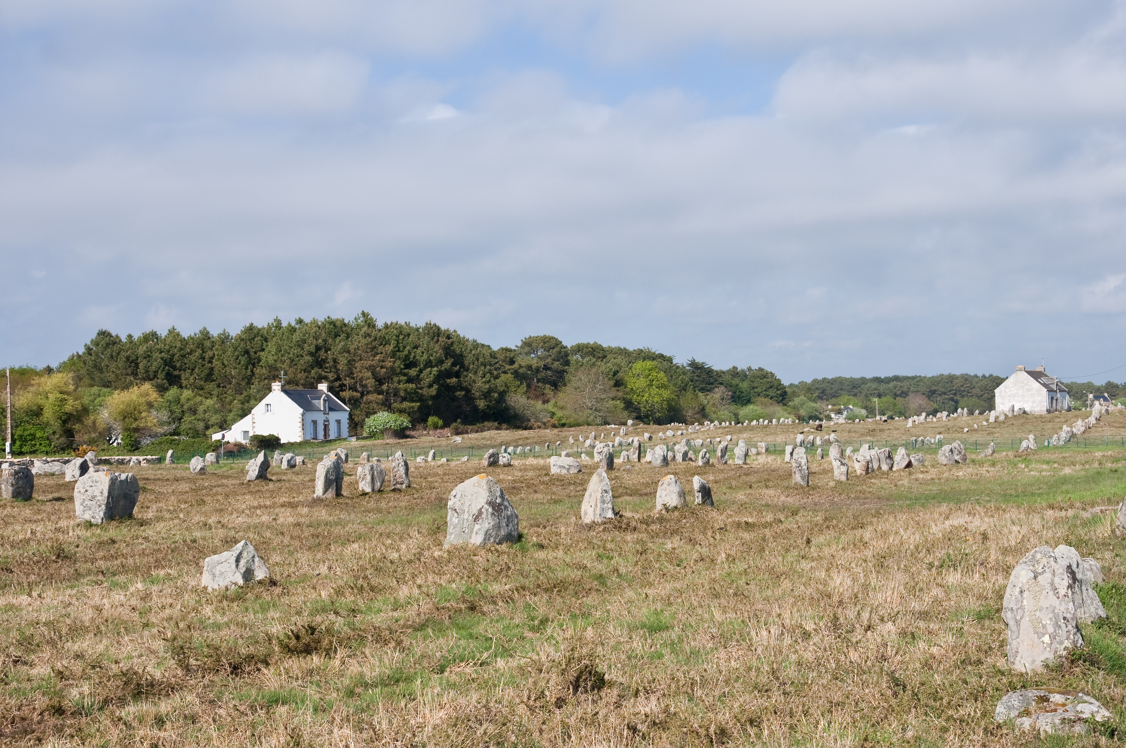 Stones in the Ménec alignment in Carnac (Morbihan, Brittany, France)